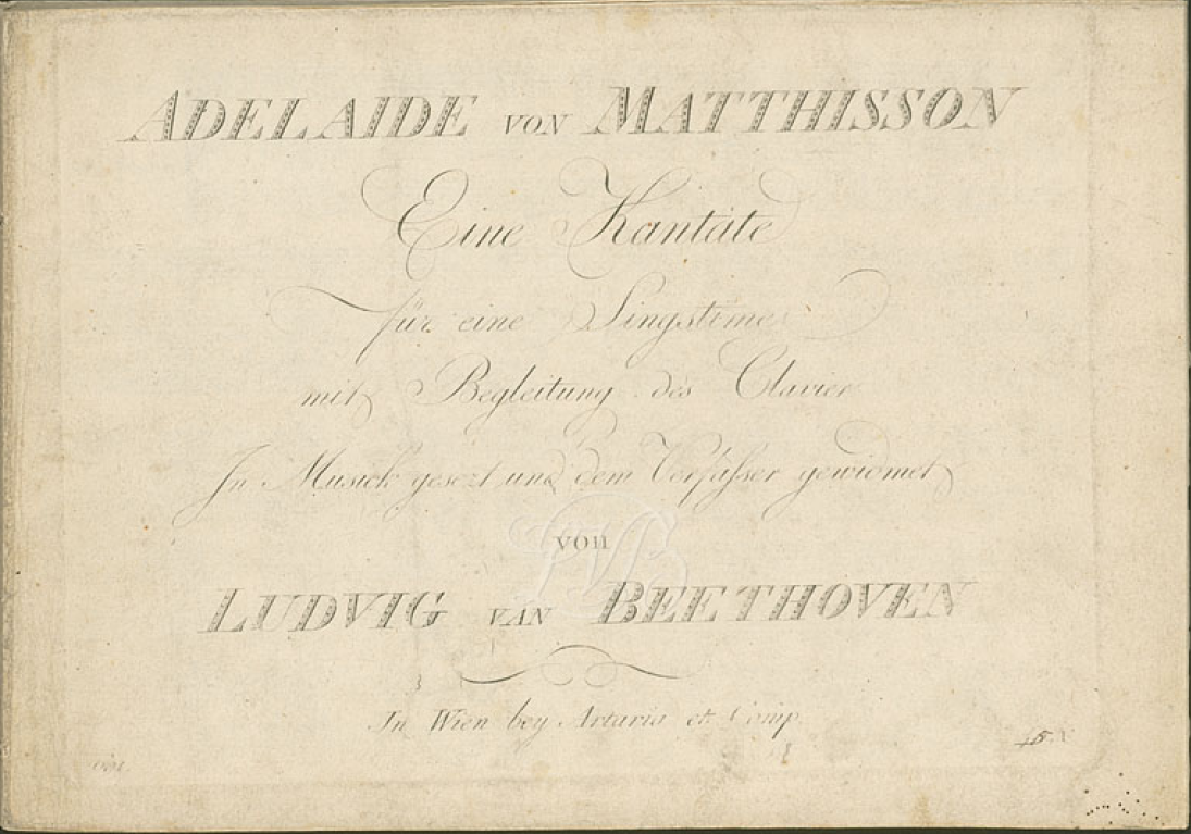 Title page of the original edition, published by Artaria, of the song "Adelaide" by Ludwig van Beethoven